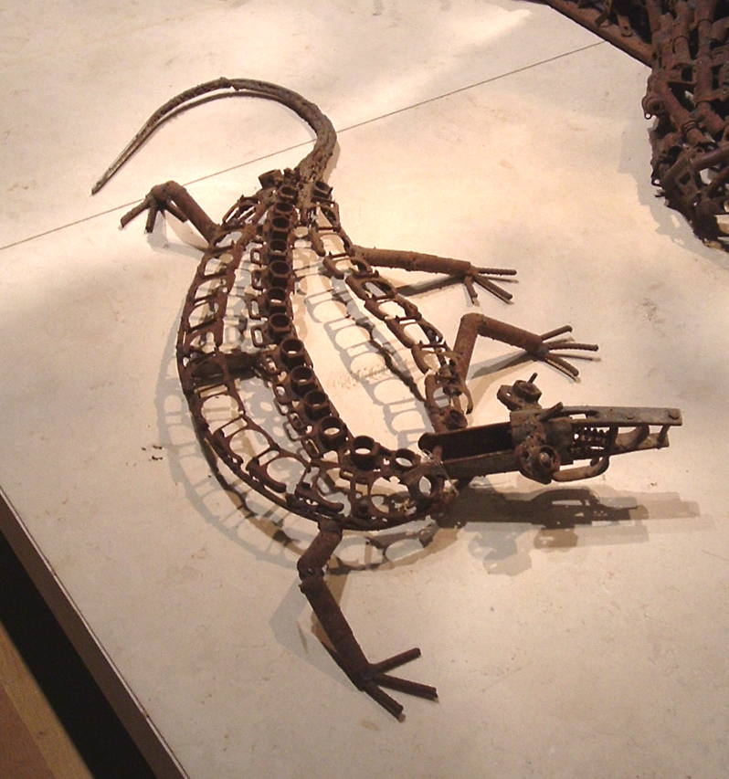 Lizard by the "Tree of Life" project in Mozambique created sculptures from parts of firearms that had been traded for tools. see Throne of Weapons for details.